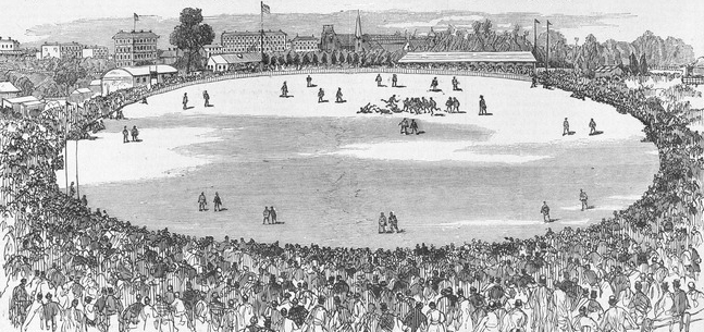 Engraving of the first intercolonial Australian football match betweeen Victoria and South Australia, published in the Australasian Sketcher, 1879